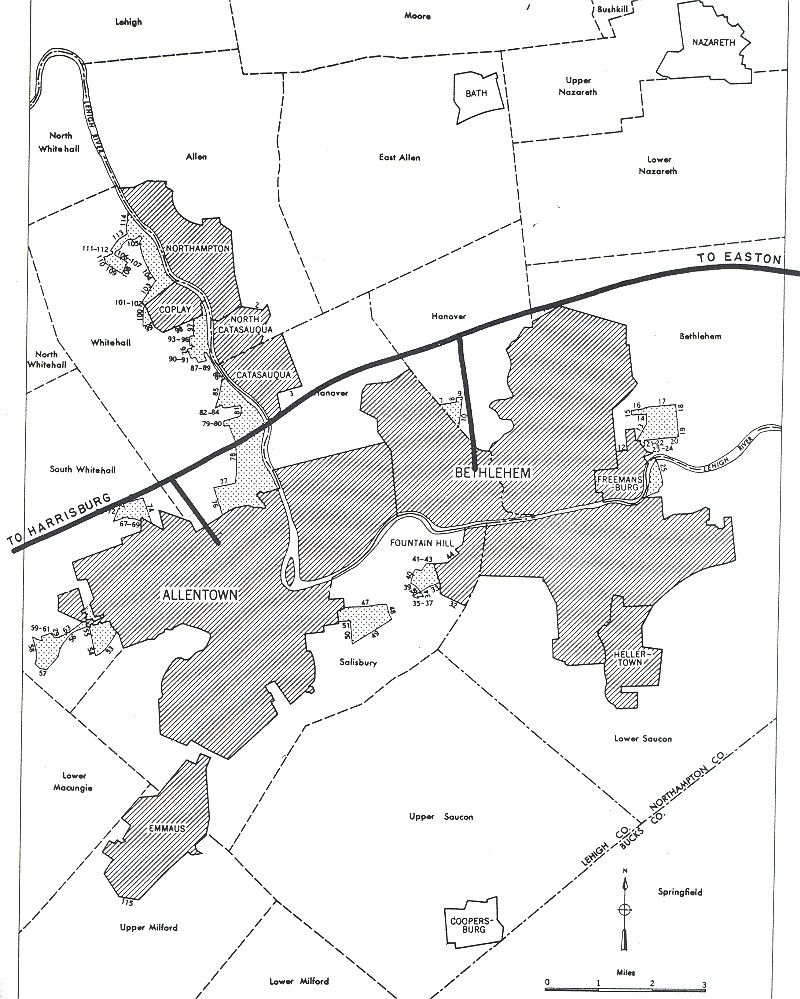 Interstates in today's terms I-78 (realigned to the south) I-178 (never built) I-378 (now PA 378)